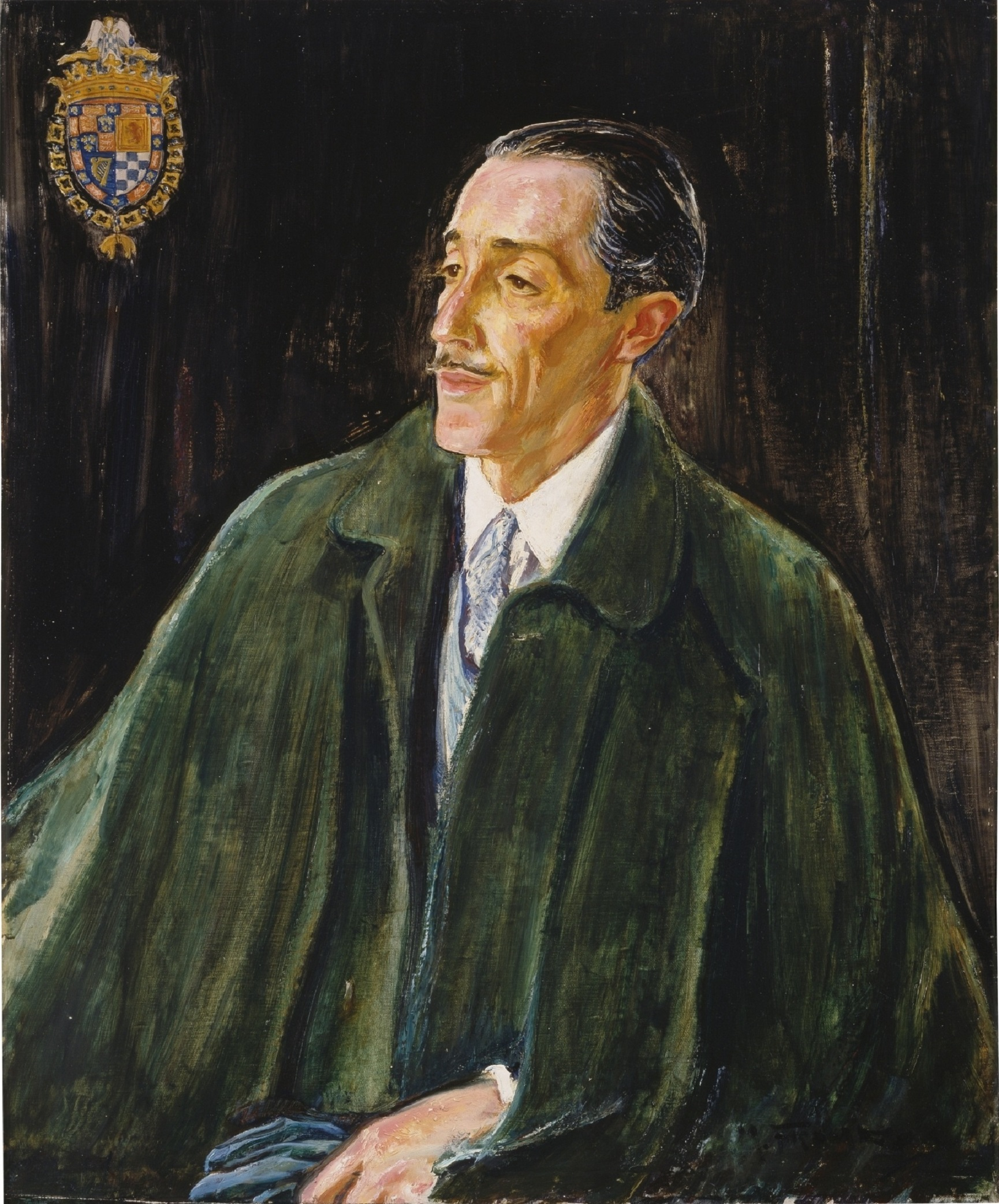 portrait of duke of alba jacob fitz james stuart